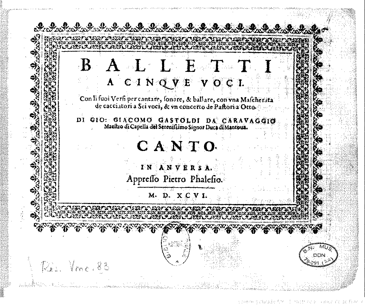 G. Gastoldi. Balletti a cinque voci. Antwerp: Pierre Phalèse (the Younger), 1596. Cantus part book title page.